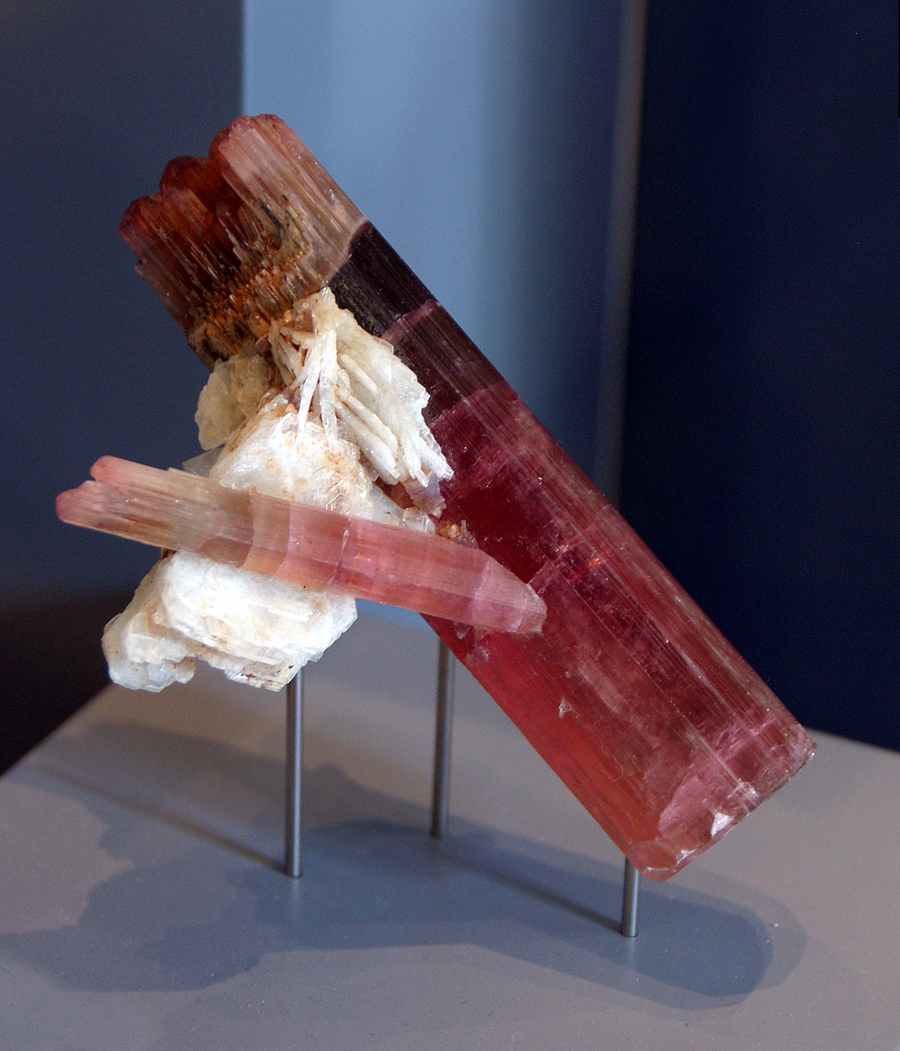 Rubellite, red variety of Elbaite (Tourmaline group) with Albite - Locality: Himalaya Mine, Pala, California, USA - Exposed in the "Museum für Naturkunde", Berlin, Germany